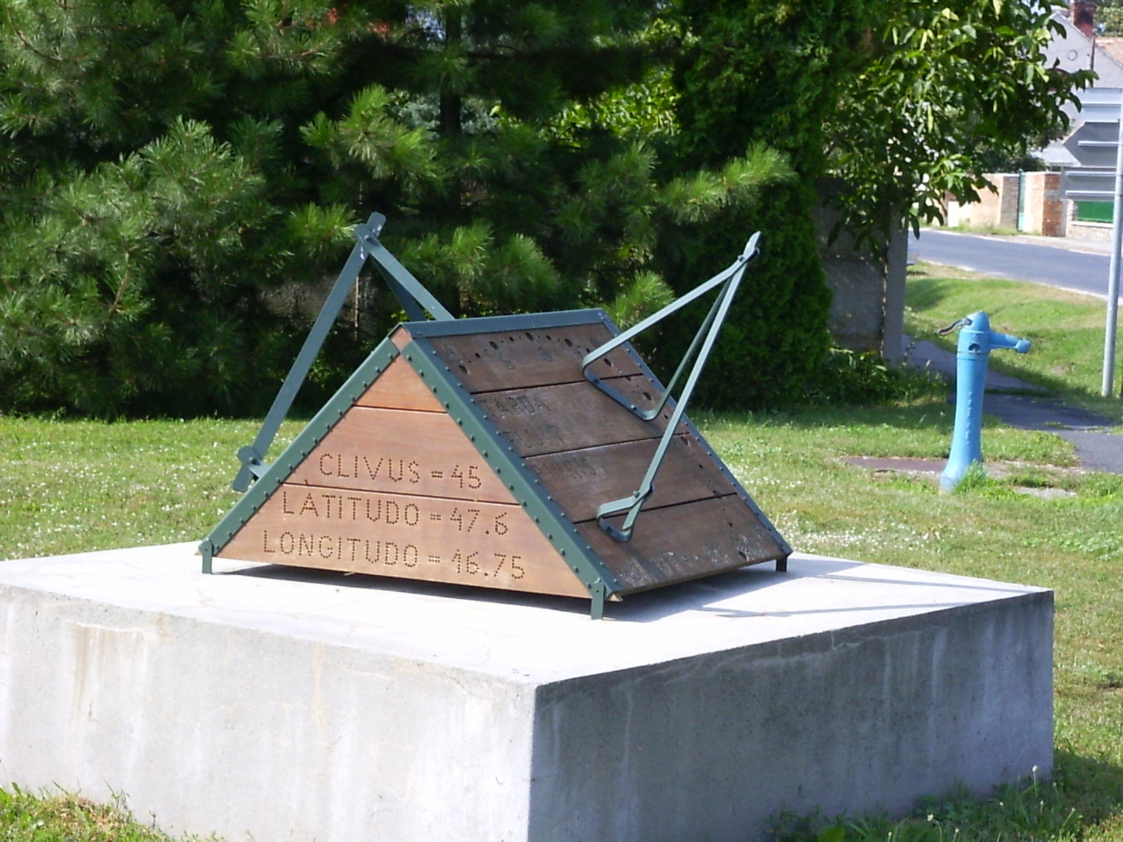 Sundial in Pinnye